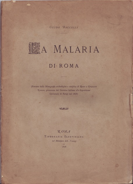 frontispiece of Guido Baccelli's monograph "La malaria di Roma", published in Rome in 1878